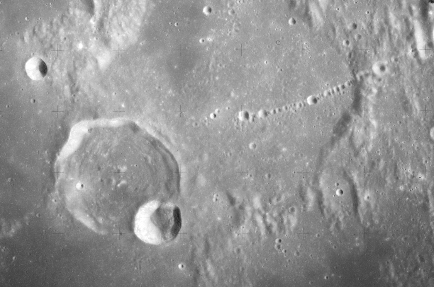 Davy with Catena Davy (chain of craters at right), on the moon. Sun elevation 37 deg., spacecraft altitude 124 km.